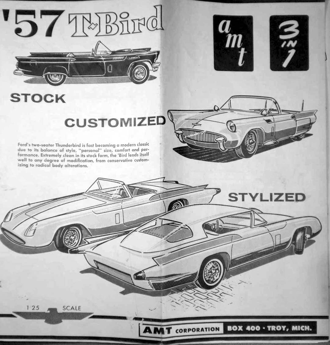 Cover of instructions for '57 T-bird. Customized and Stylized.